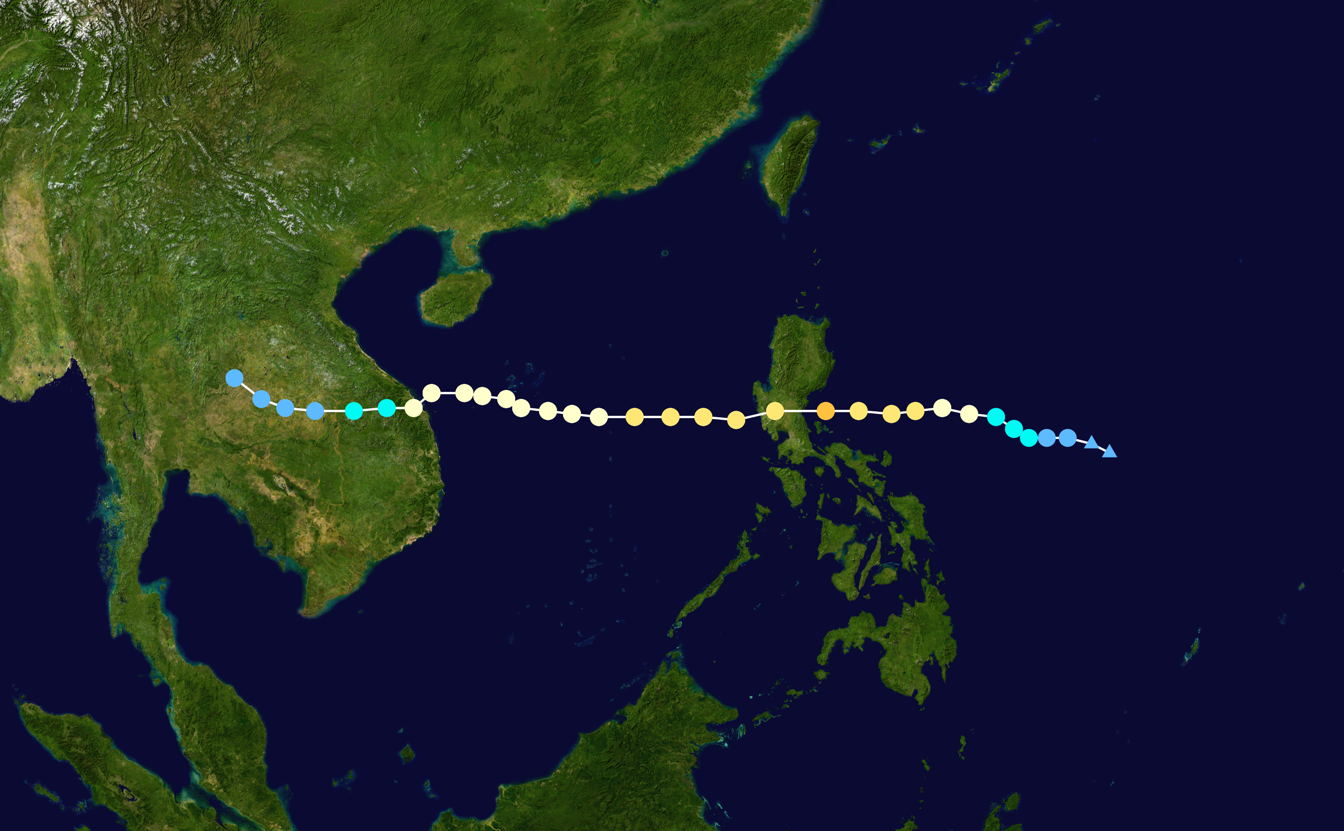 Track map of Typhoon Nari of the 2013 Pacific typhoon season. The points show the location of the storm at 6-hour intervals. The colour represents the storm's maximum sustained wind speeds as classified in the Saffir–Simpson scale (see below), and the shape of the data points represent the nature of the storm, according to the legend below. Saffir–Simpson scale Tropical depression≤38 mph≤62 km/h Category 3111–129 mph178–208 km/h Tropical storm39–73 mph63–118 km/h Category 4130–156 mph209–251 km/h Category 174–95 mph119–153 km/h Category 5≥157 mph≥252 km/h Category 296–110 mph154–177 km/h Unknown Storm type Tropical cyclone Subtropical cyclone Extratropical cyclone / Remnant low / Tropical disturbance / Monsoon depression